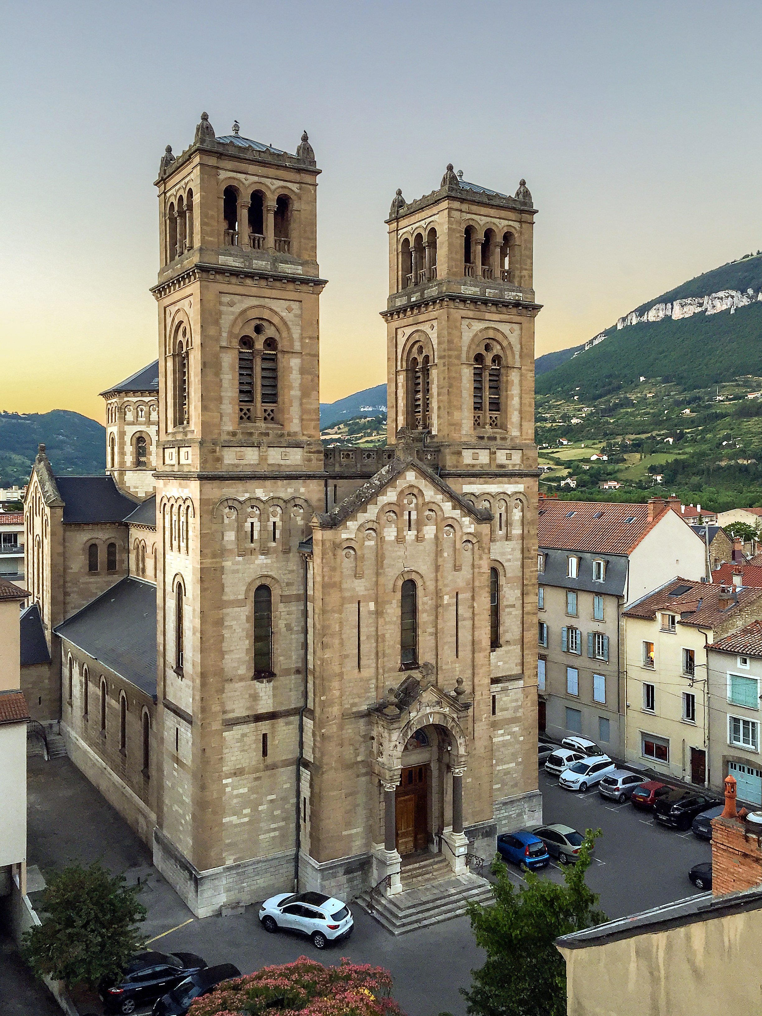 Millau, Aveyron, France. Church of Sacred Heart - Exterior